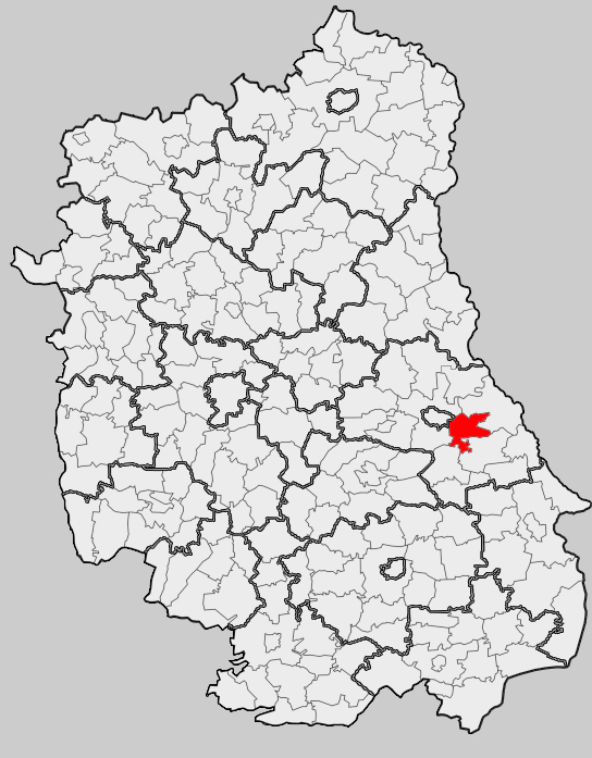 Map of gmina Kamień, Chełm county, Lublin voivodship